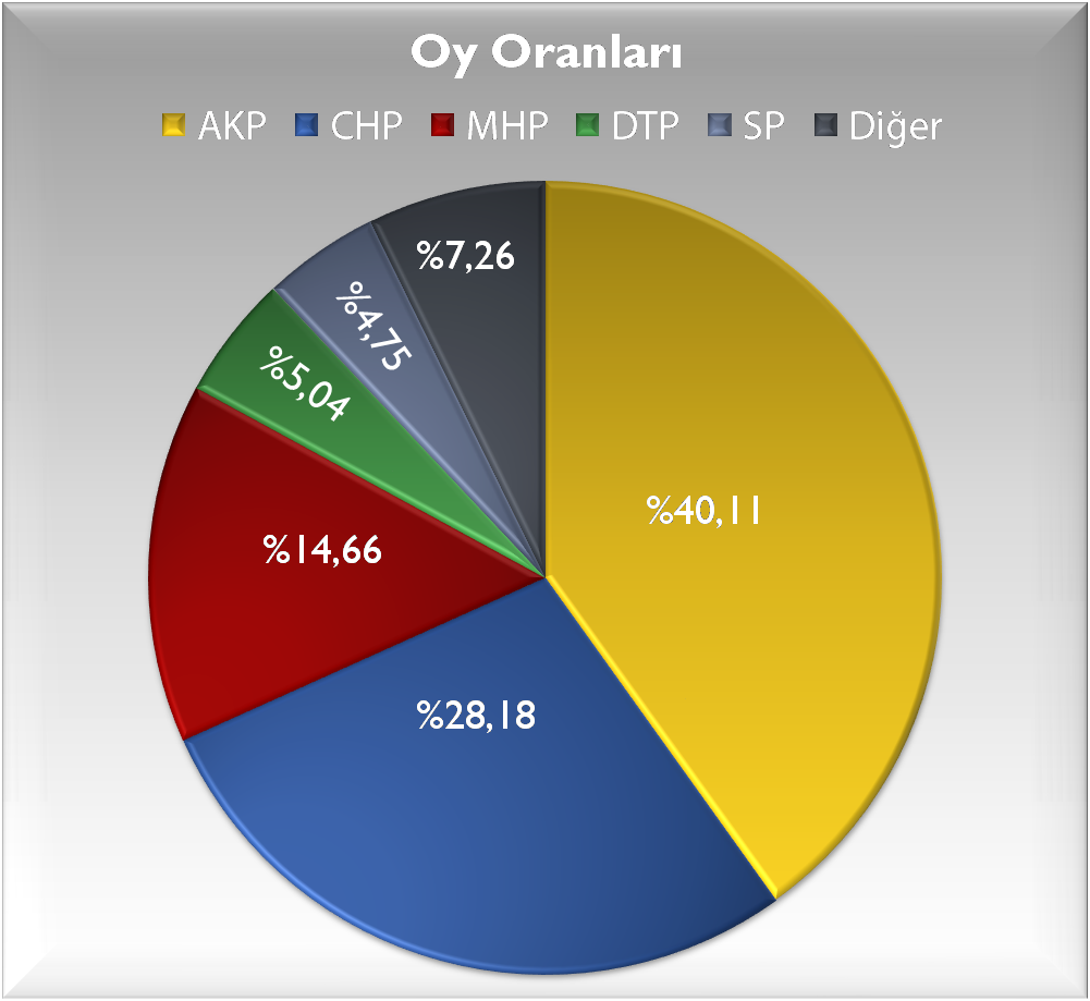 Estimates of Turkey 2009 Local Elections.